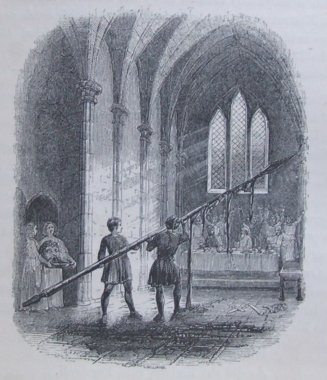 An image of Peredur being hosted by his second uncle while a bloody spear and severed head carried on a silver salver are paraded through the hall. Taken from the 1902 edition of The Mabinogion edited by Owen Morgan Edwards, from the original translation by Charlotte Guest.